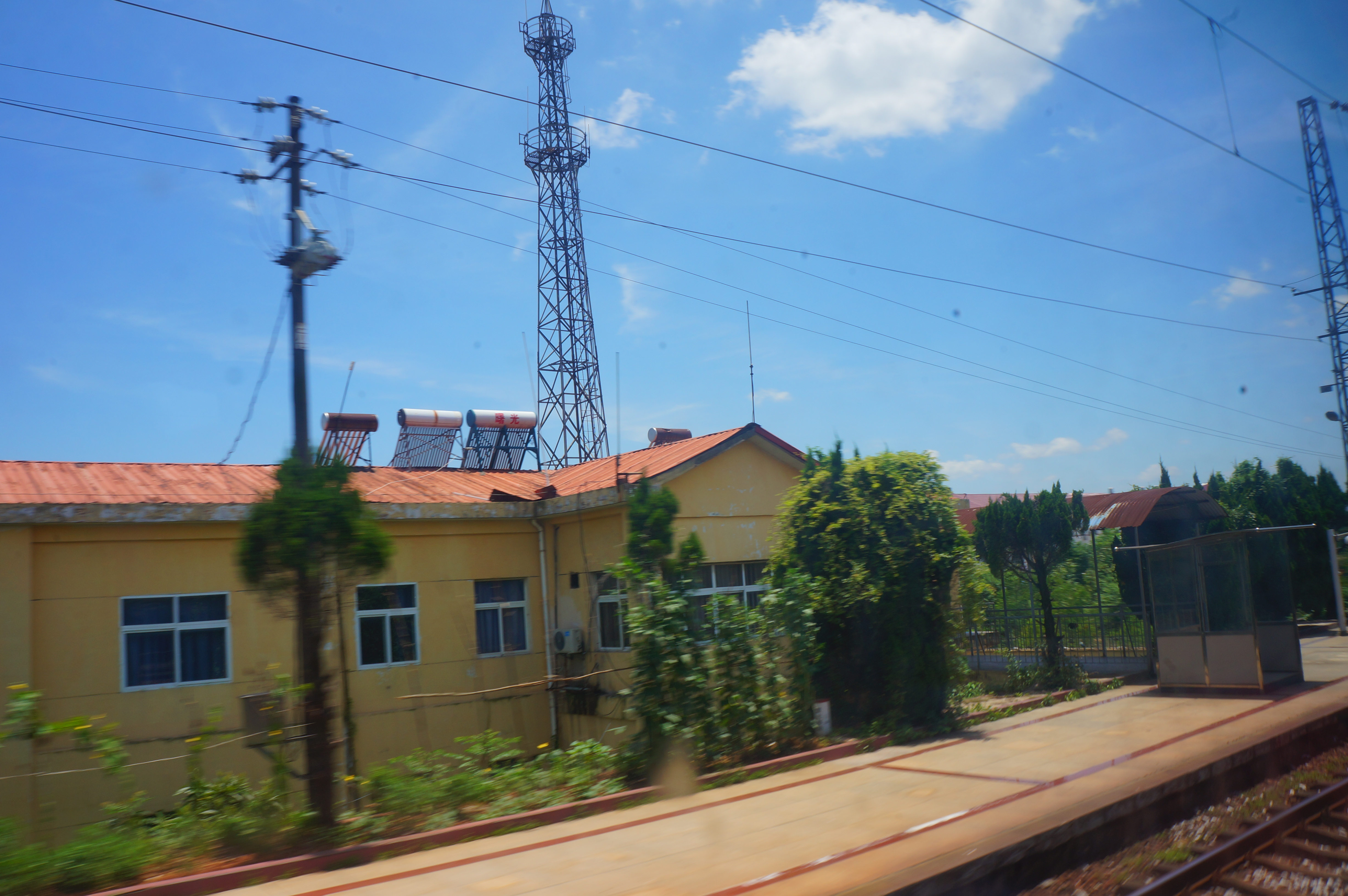 201806 Station Building of Tongjia Station